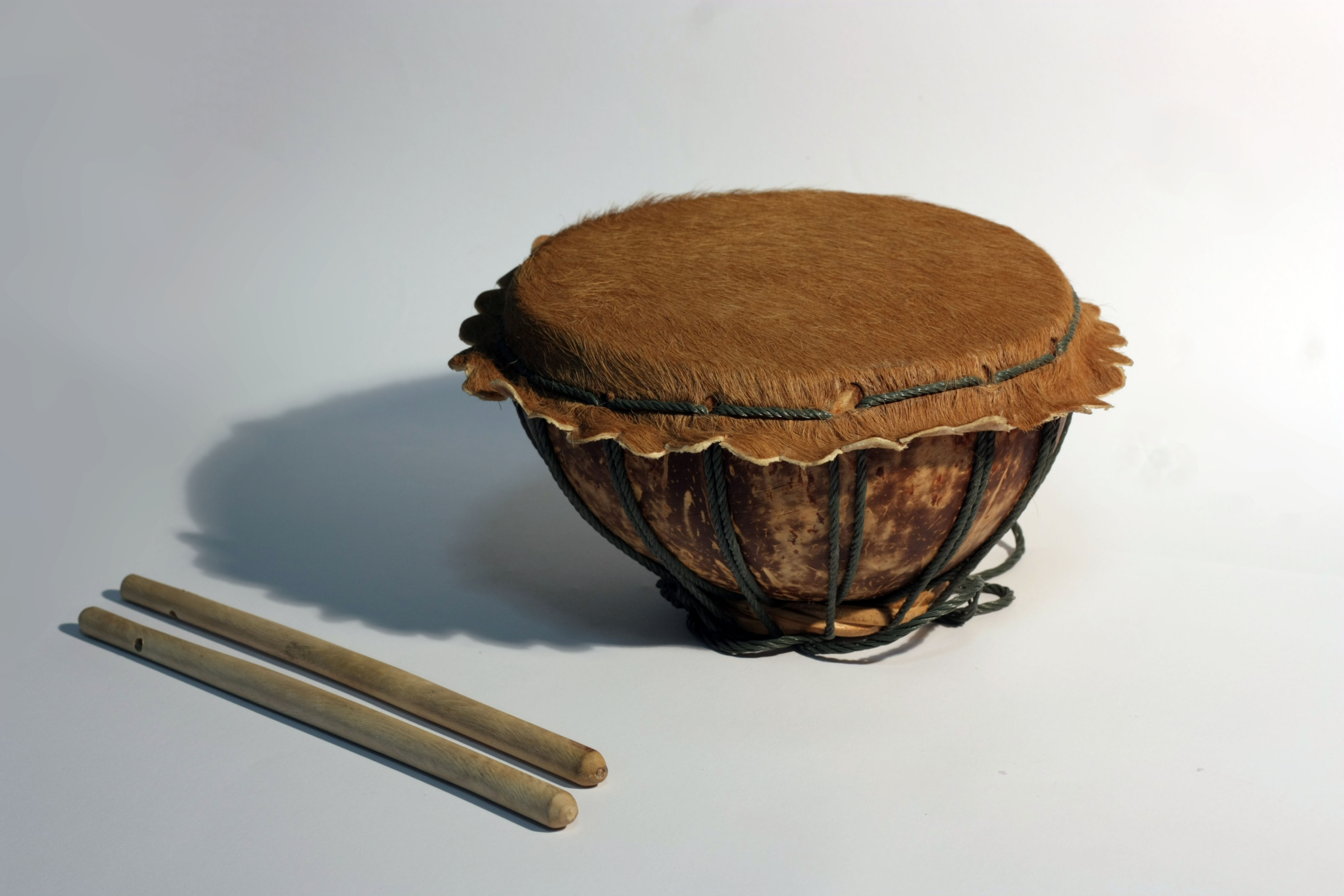 Naqareh, made by coconut shell in Thailand